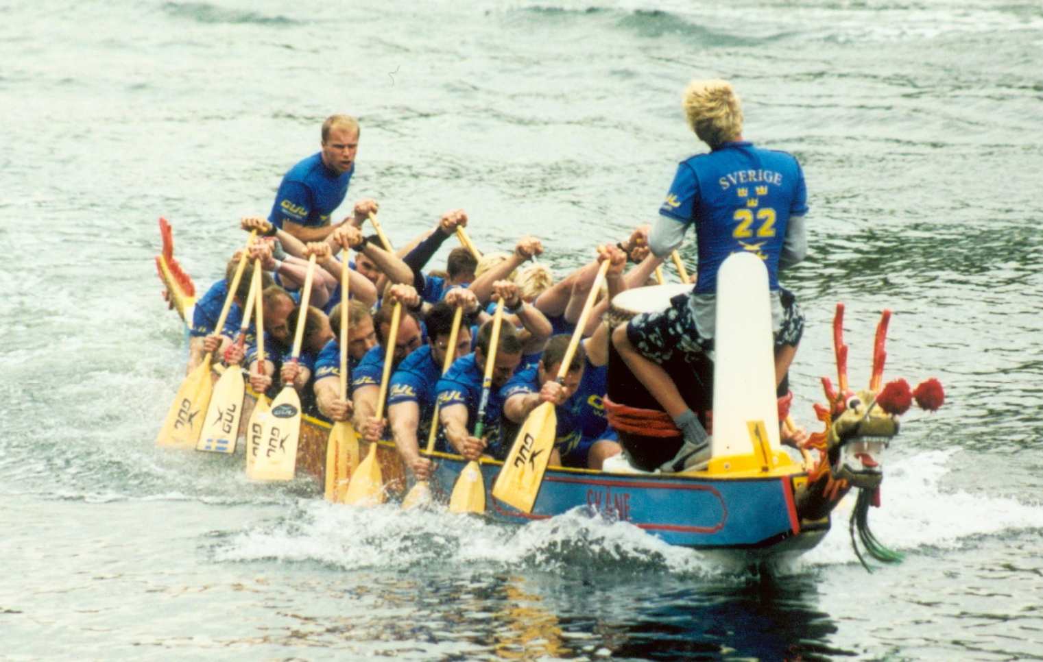 (Swedish National Team at the EDBF European Dragon Boat Championships in Malmö, Sweden 2000. Men's 5000 meter)